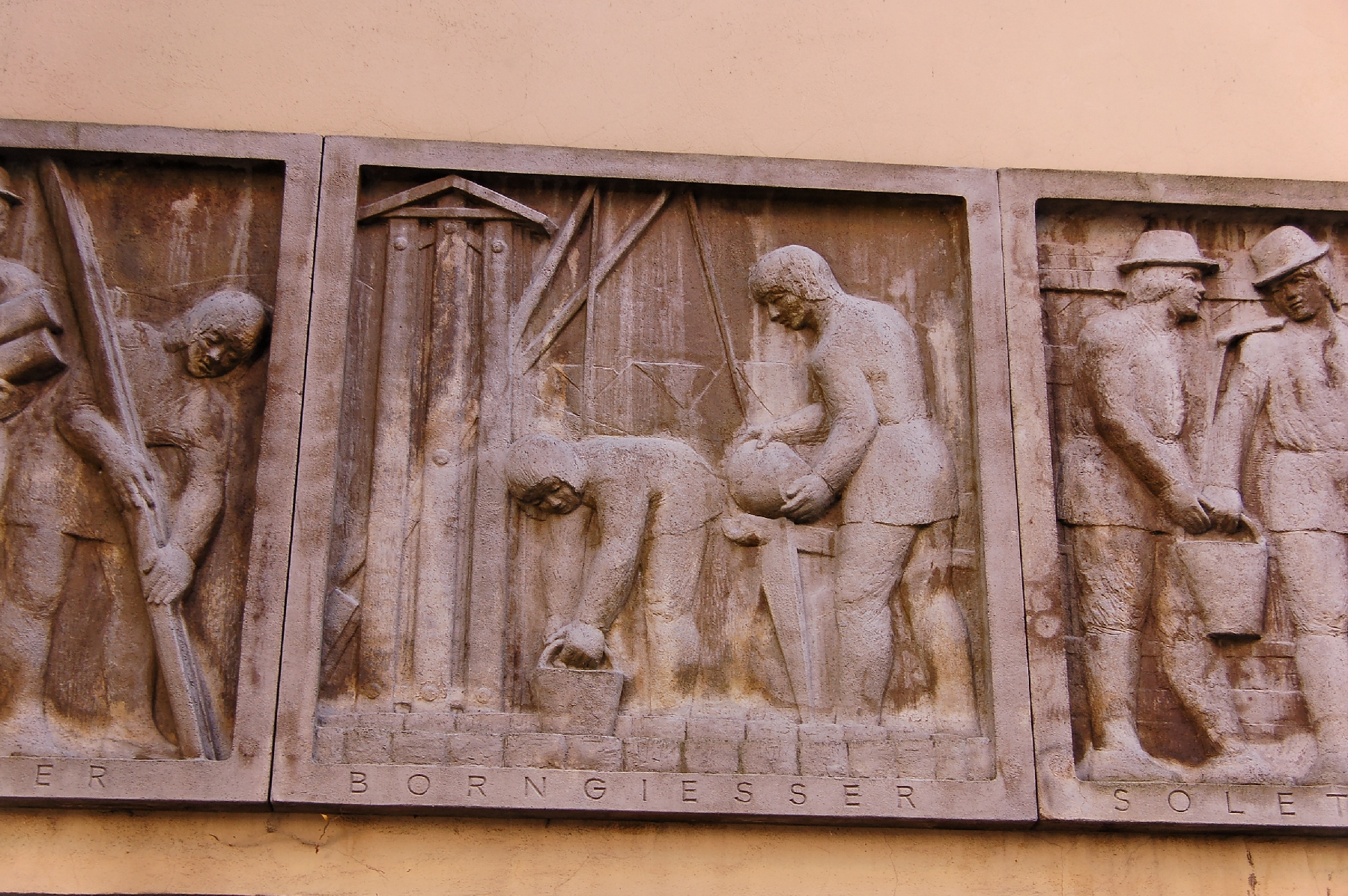 Bad Salzungen 2011